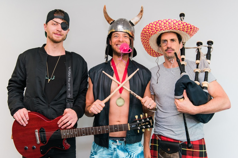 Cool Boys and the Frontman the band created by the hosts of the Hamish & Andy Radio Show. (From left-right) Jack Post, Hamish Blake, Andy Lee